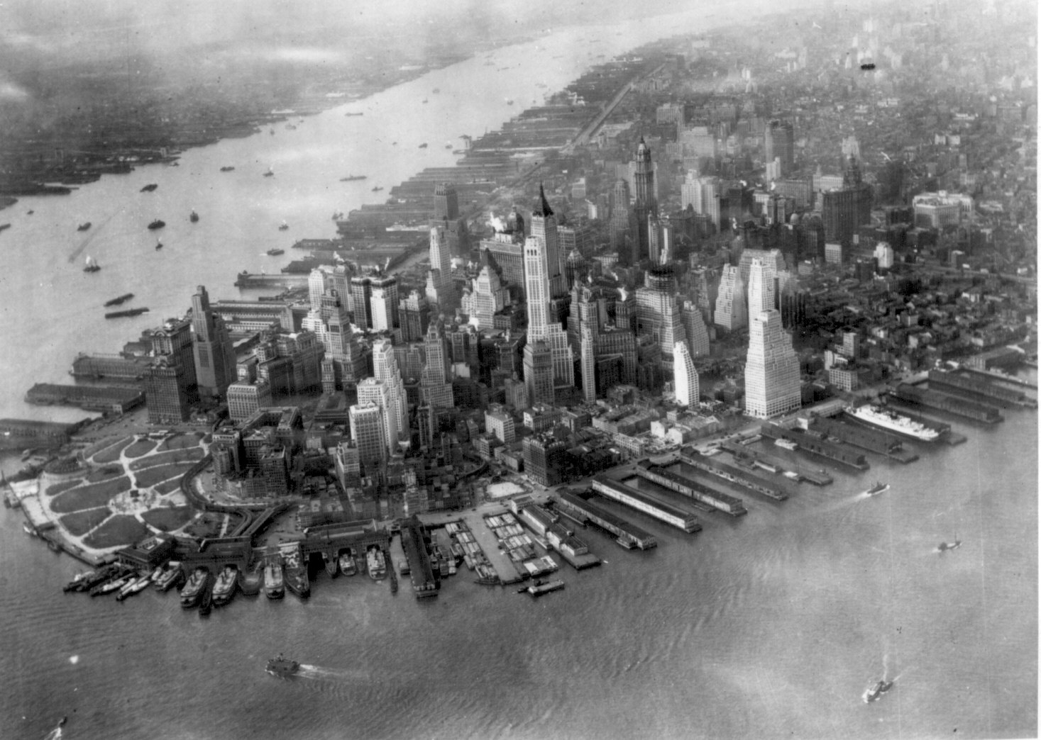 Aerial view of the tip of Manhattan, New York, United States ca. 1931. Note that the Cities Service Building (now known as the American International Building), which would become lower Manhattan's tallest building in 1932, is only partially completed.